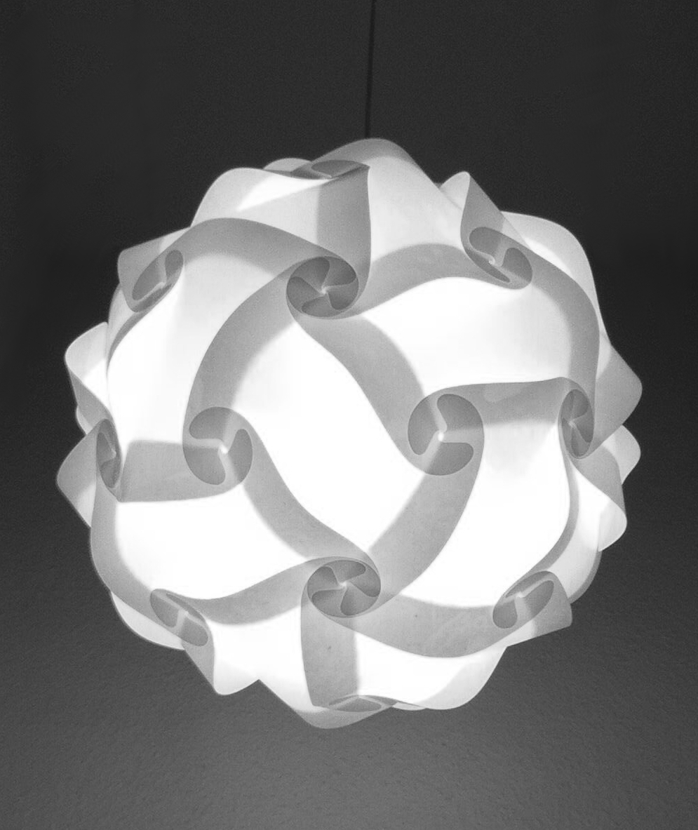 IQ-light. Design by Holger Strøm. Original rhombic triacontahedron-shape.